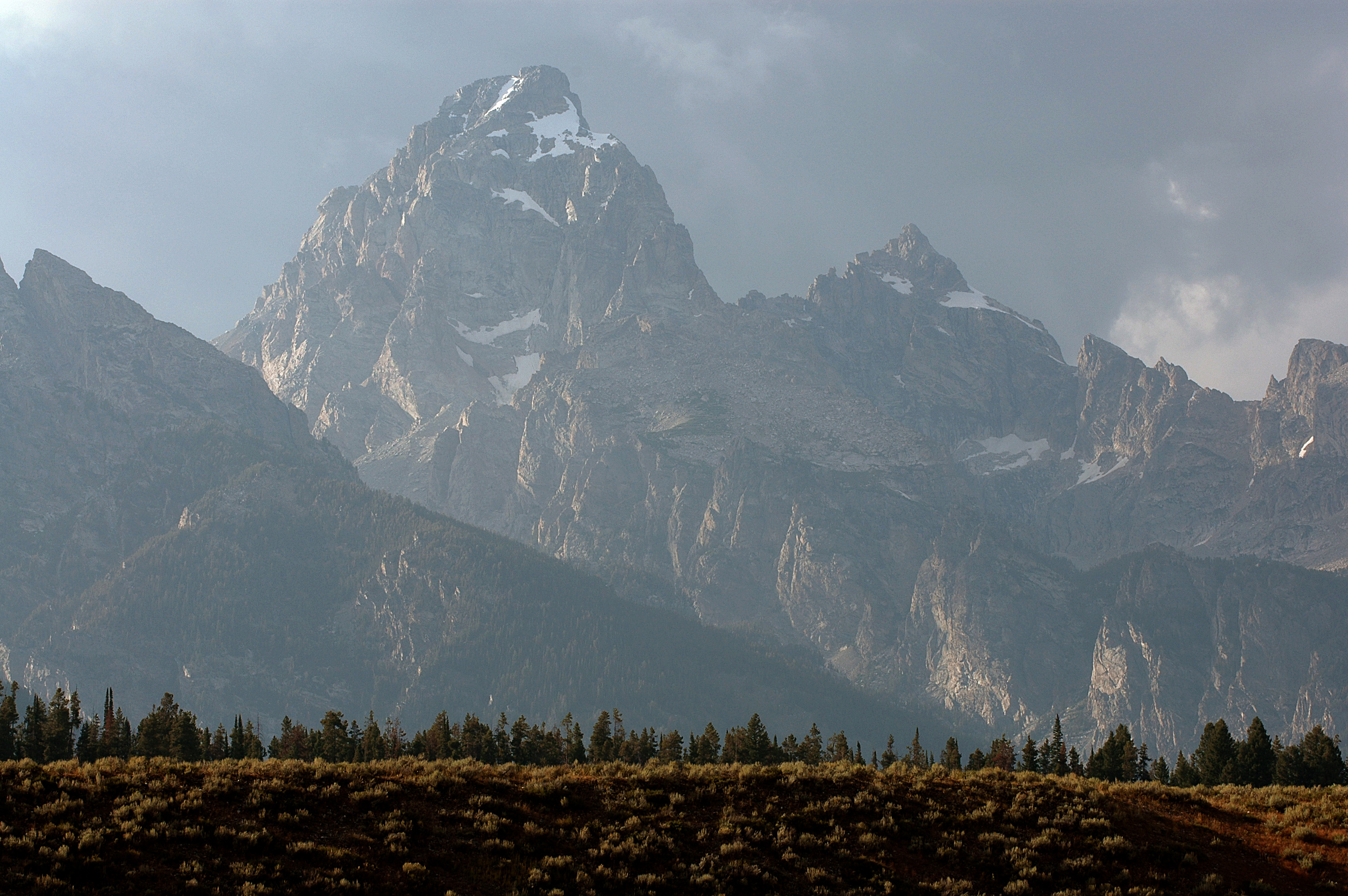 Tetons 2004